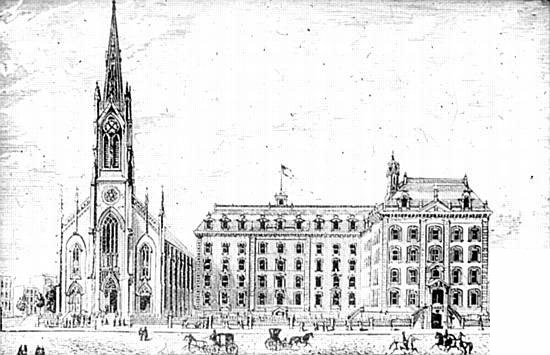 St. Xavier Church, High School, and College in 1831, the year the high school opened its doors. [1] The white rectangle in the bottom-right corner is a watermark from the Public Library of Cincinnati and Hamilton County that I removed, per Commons:Watermarks.